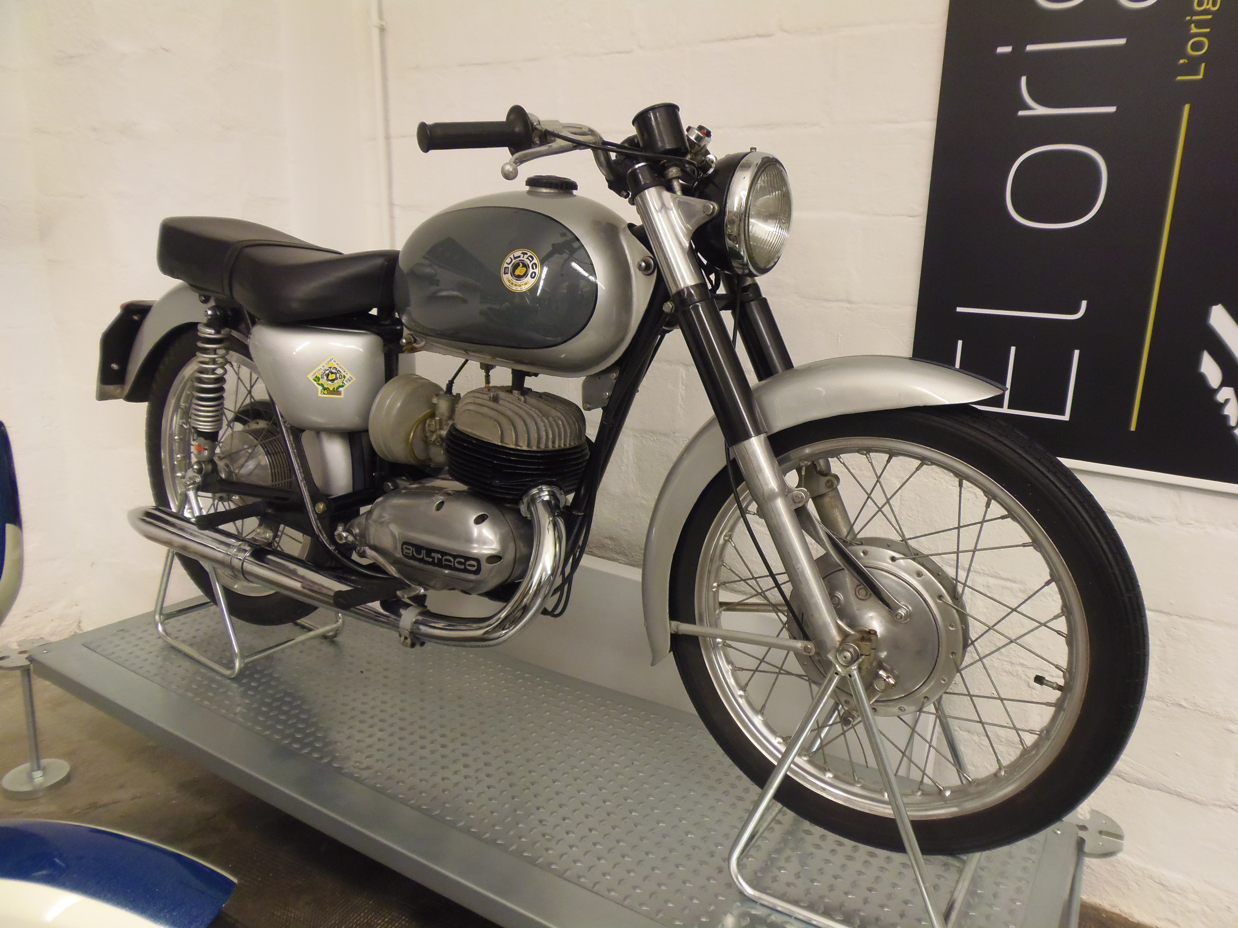 Bultaco 200, 200 cc, 1962. This unit was owned by Paco Bultó, who used to name it The Taxi due to their trustworthiness and efficiency. He used to use it to go to work.